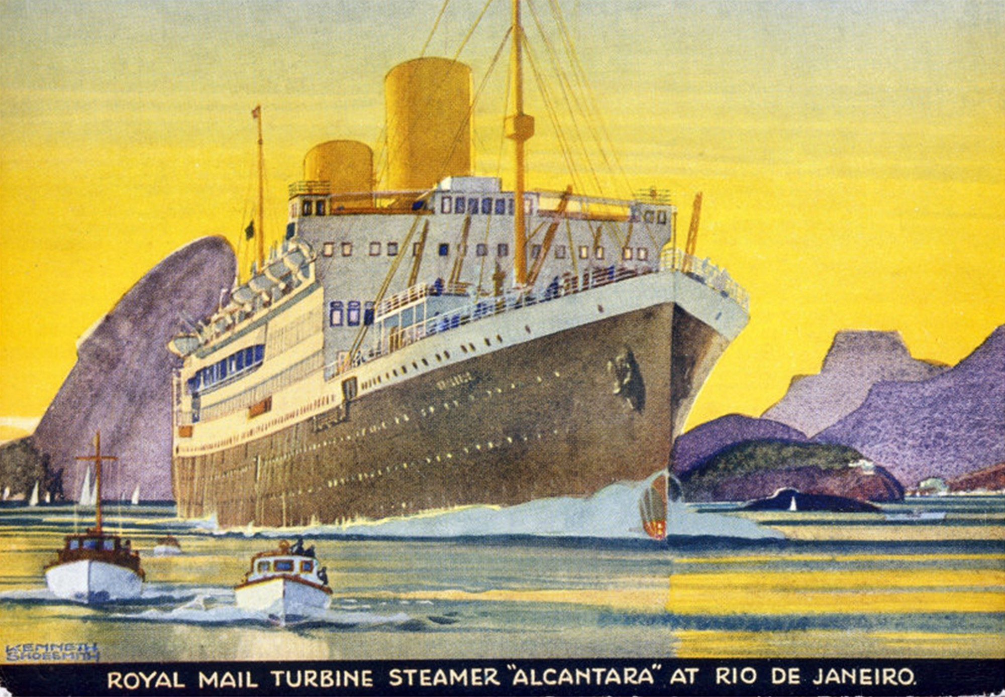 Poster of the Royal Mail Steam Packet Company liner Alcantara at Rio de Janeiro, by KEnneth Shoesmith